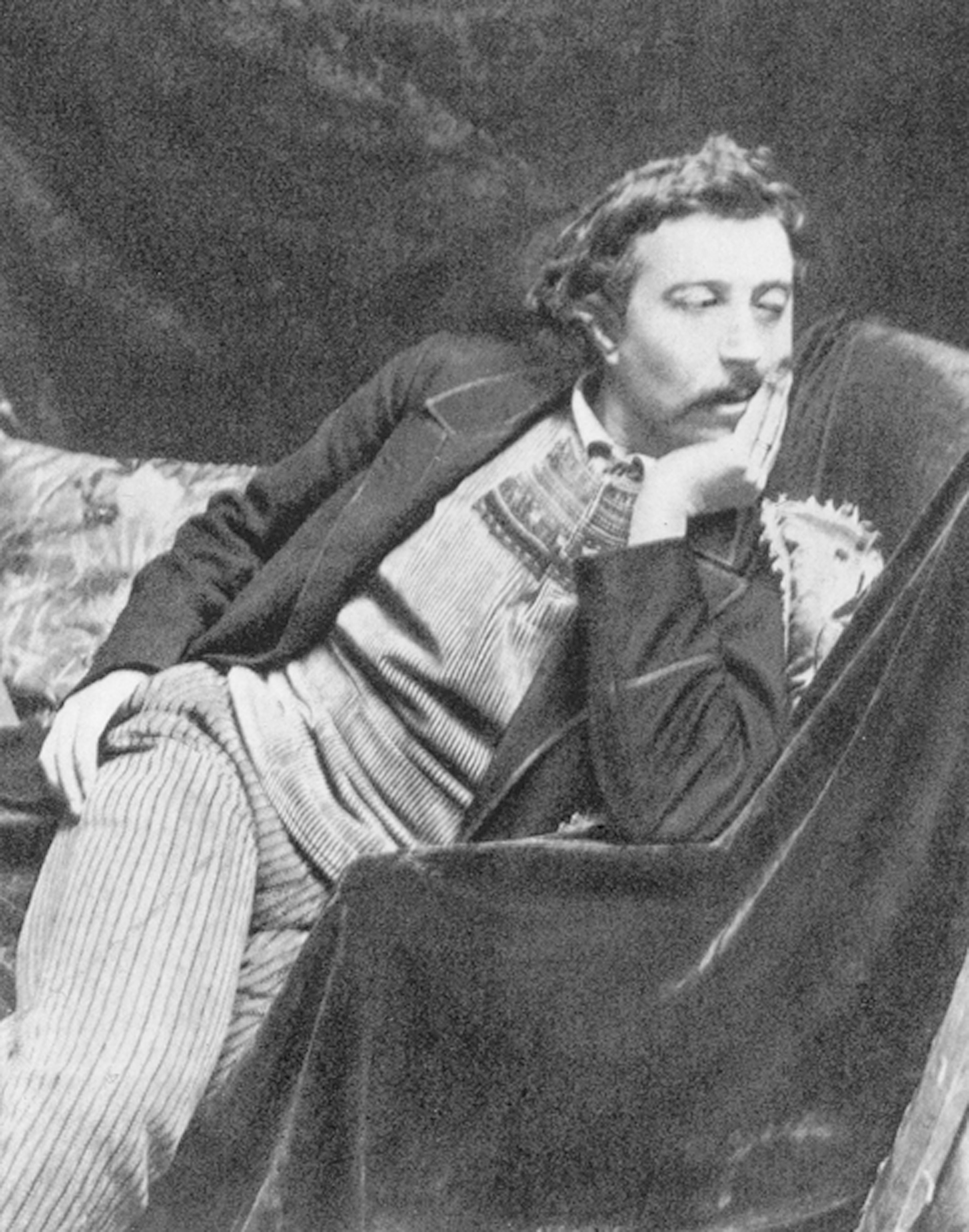 Paul Gauguin, photography, ca. 1891